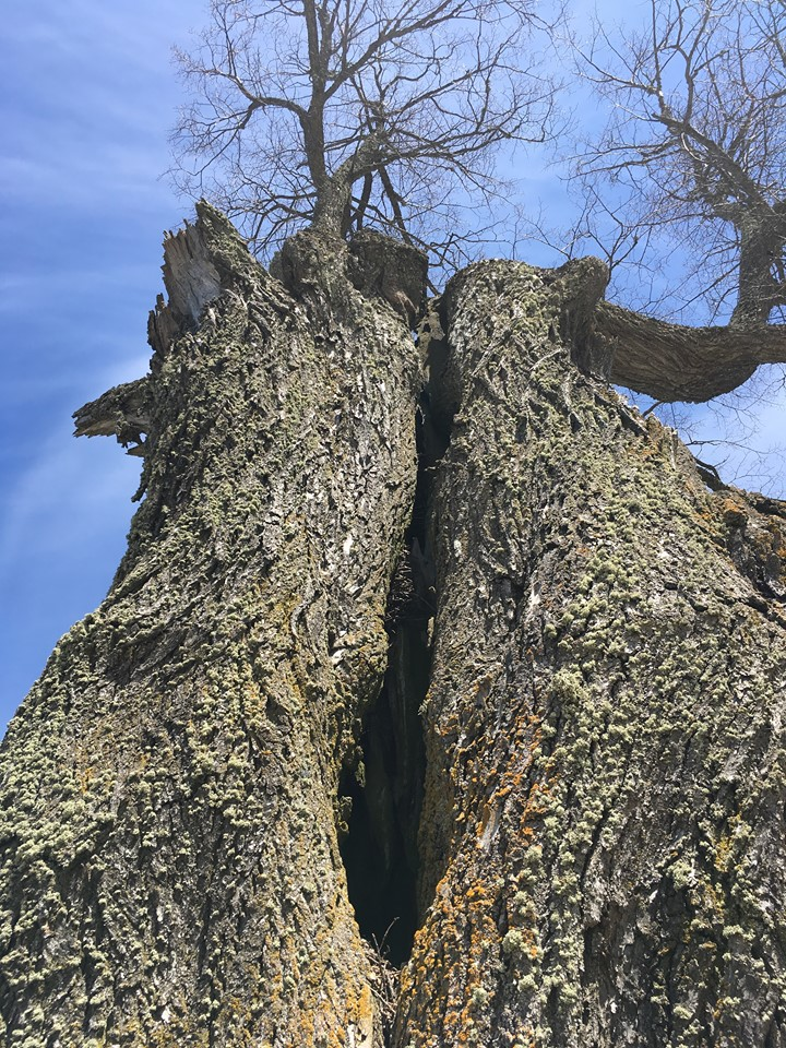 The sacred linden tree in Tõrenurme village, Põltsamaa parish, Estonia. National monument no. 9365